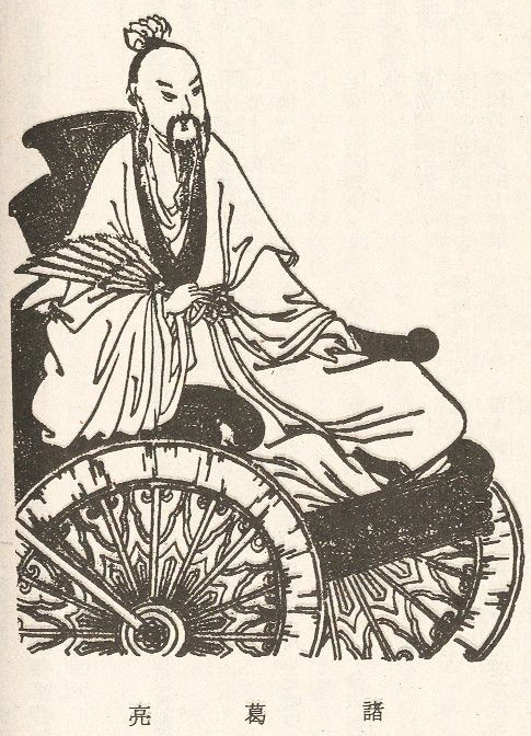 Portrait of the statesman and general Zhuge Liang from a Qing Dynasty edition of The Romance of the Three Kingdoms.